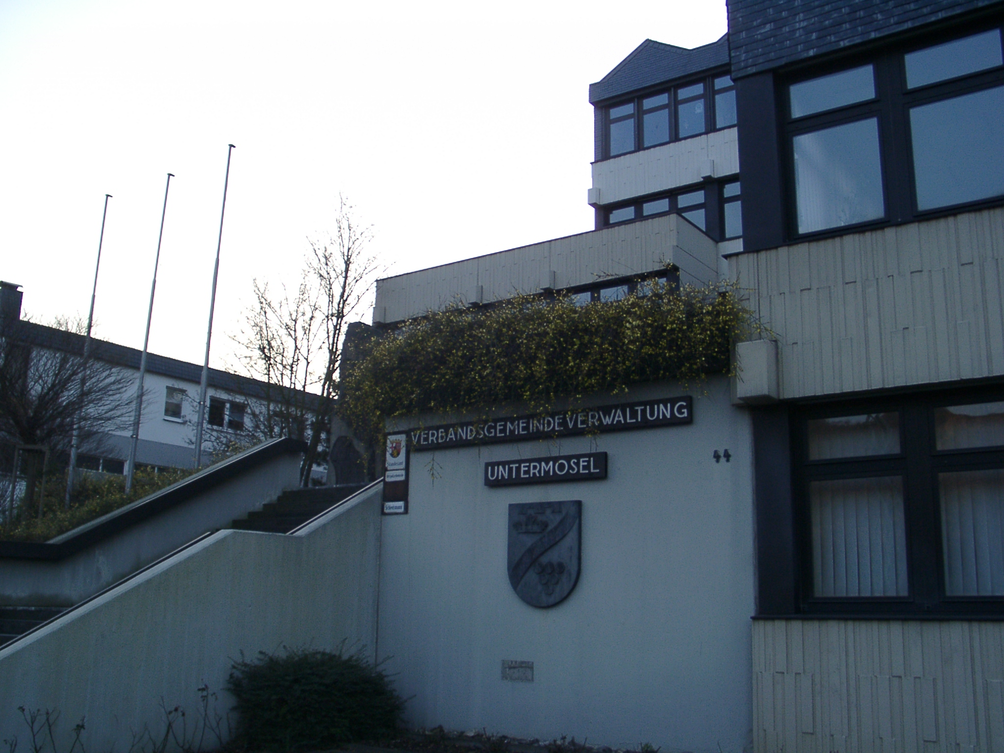 Verbandsgemeindeverwaltung Untermosel, autocorr.